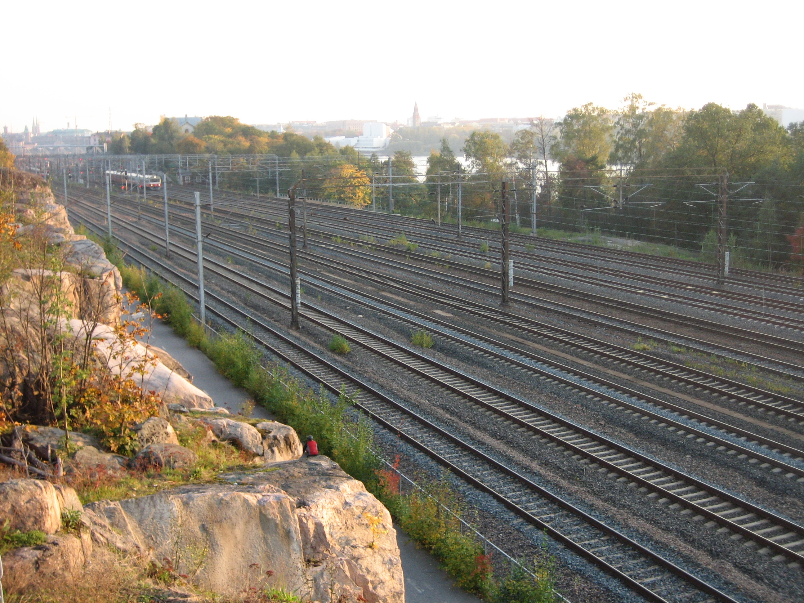 Railway tracks in Helsinki, Finland, between Helsinki Central railway station and Pasila railway station